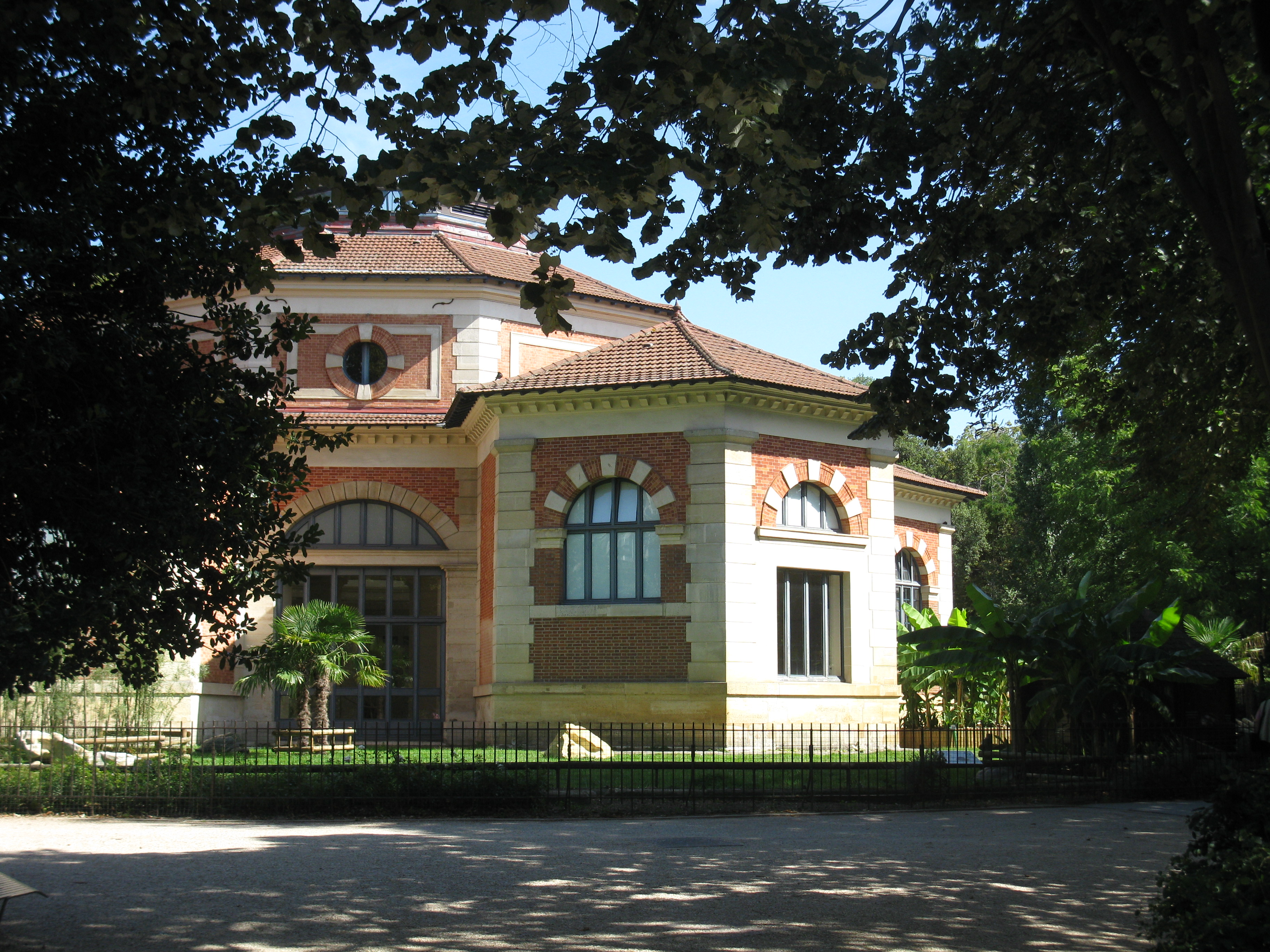 The Rotonde of the Muséum National d'Histoire Naturelle, Paris